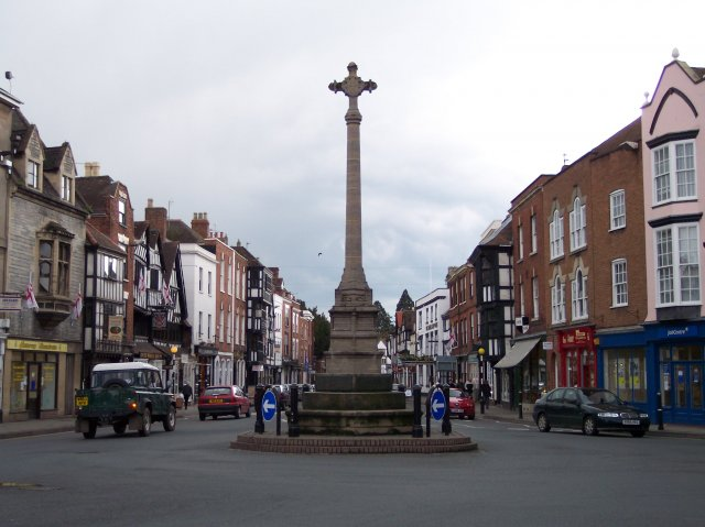 The war memorial in Tewkesbury, England.